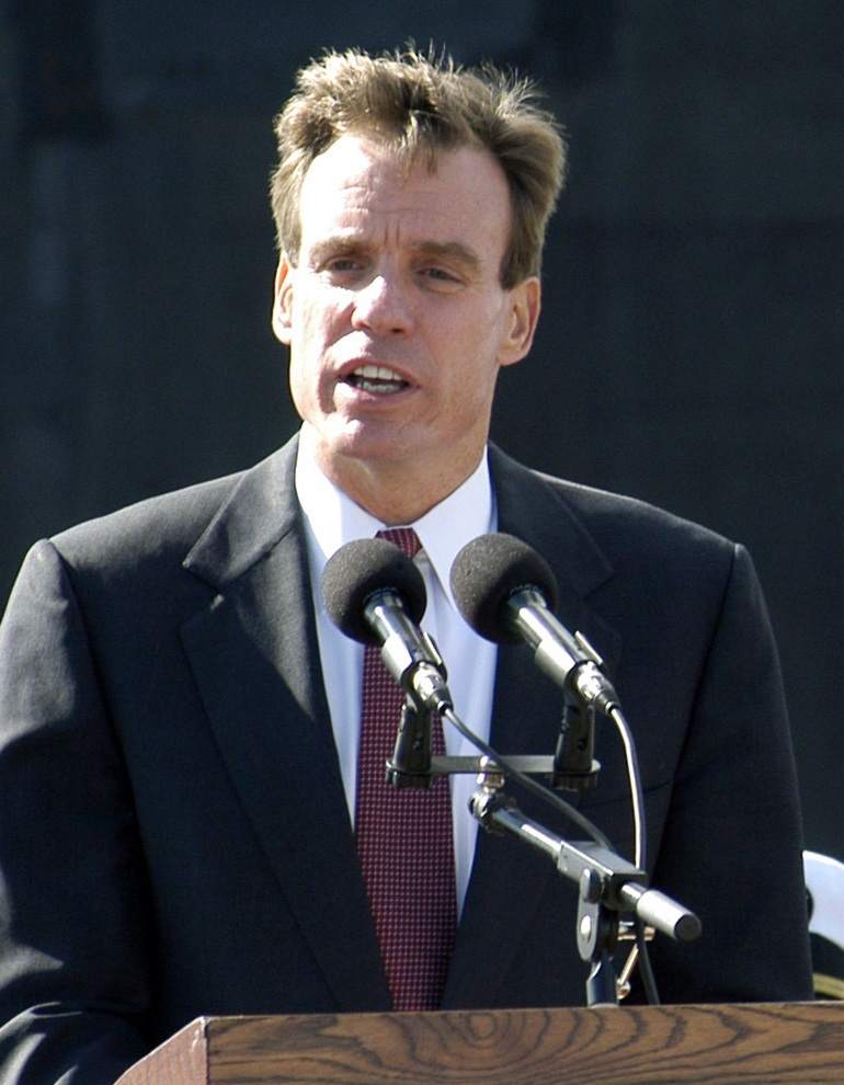 Keynote speaker, the honorable Mark Warner, Governor of Virginia (VA), addresses the audience during the Commissioning Ceremony for the US Navy (USN) Attack Submarine, Pre-Commissioning Unit (PCU) VIRGINIA (SSN 774), being held at Naval Station Norfolk, Virginia (VA). The VIRGINIA is the Navy's only major combatant ready to join the fleet that was designed with the post-Cold War security environment in mind and embodies the war fighting and operational capabilities required to dominate the littorals while maintaining undersea dominance in the open ocean. (Released to Public)